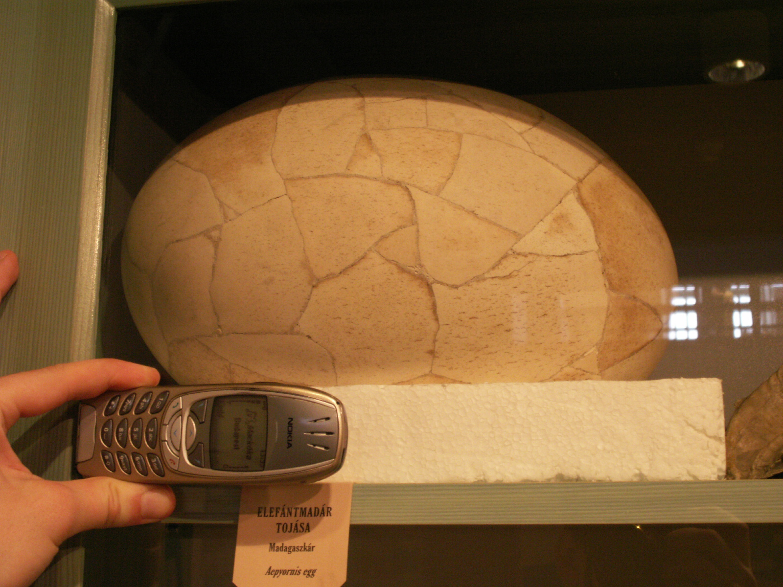 Elephant Bird Egg, Hungarian Natural History Museum